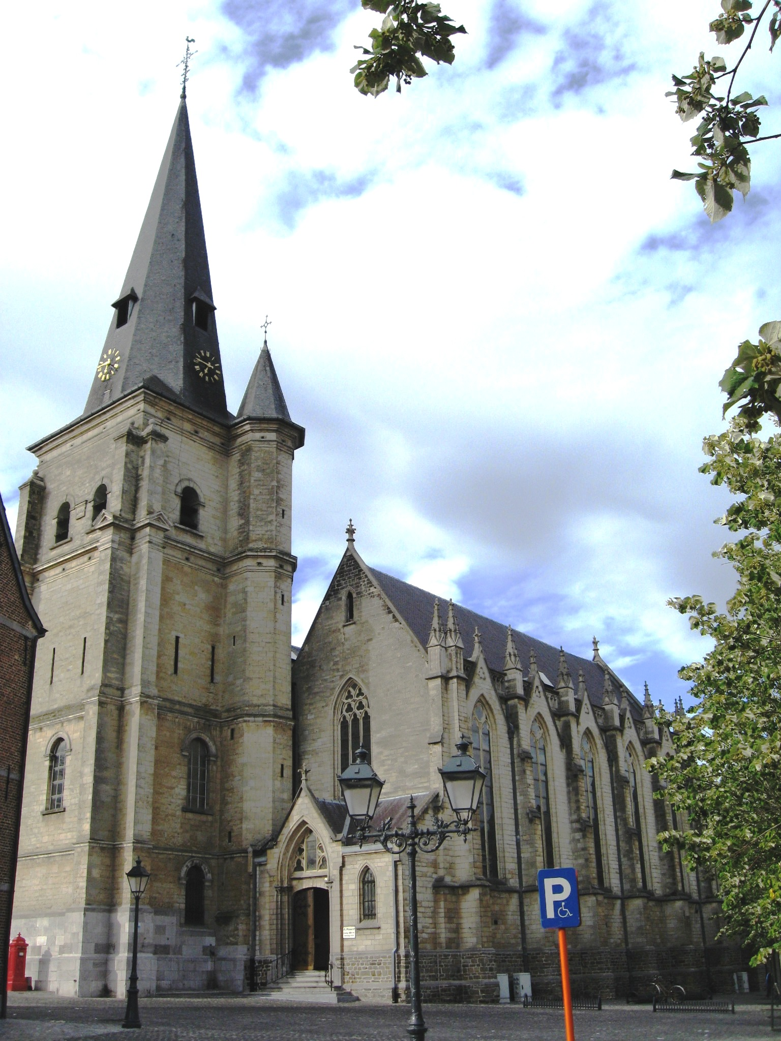 Church of Saint Maurice in Bilzen, Limburg, Belgium